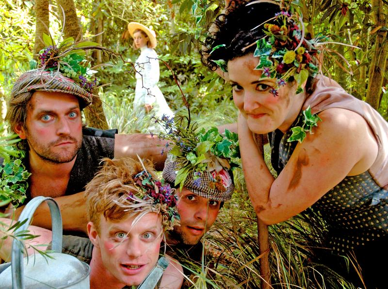 Angel Exit Theatre Company's centenary production of The Secret Garden tours the UK in Spring 2012, blending their rich visual style with storytelling, striking physicality, beautiful puppets, and original soundtrack